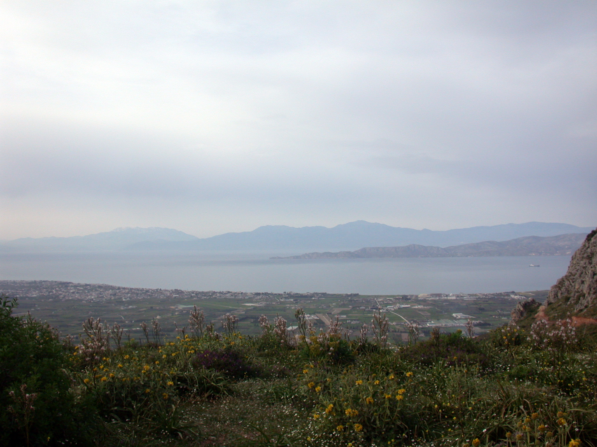 Greece, mount Parnassus, view from Acrocorinth Castle